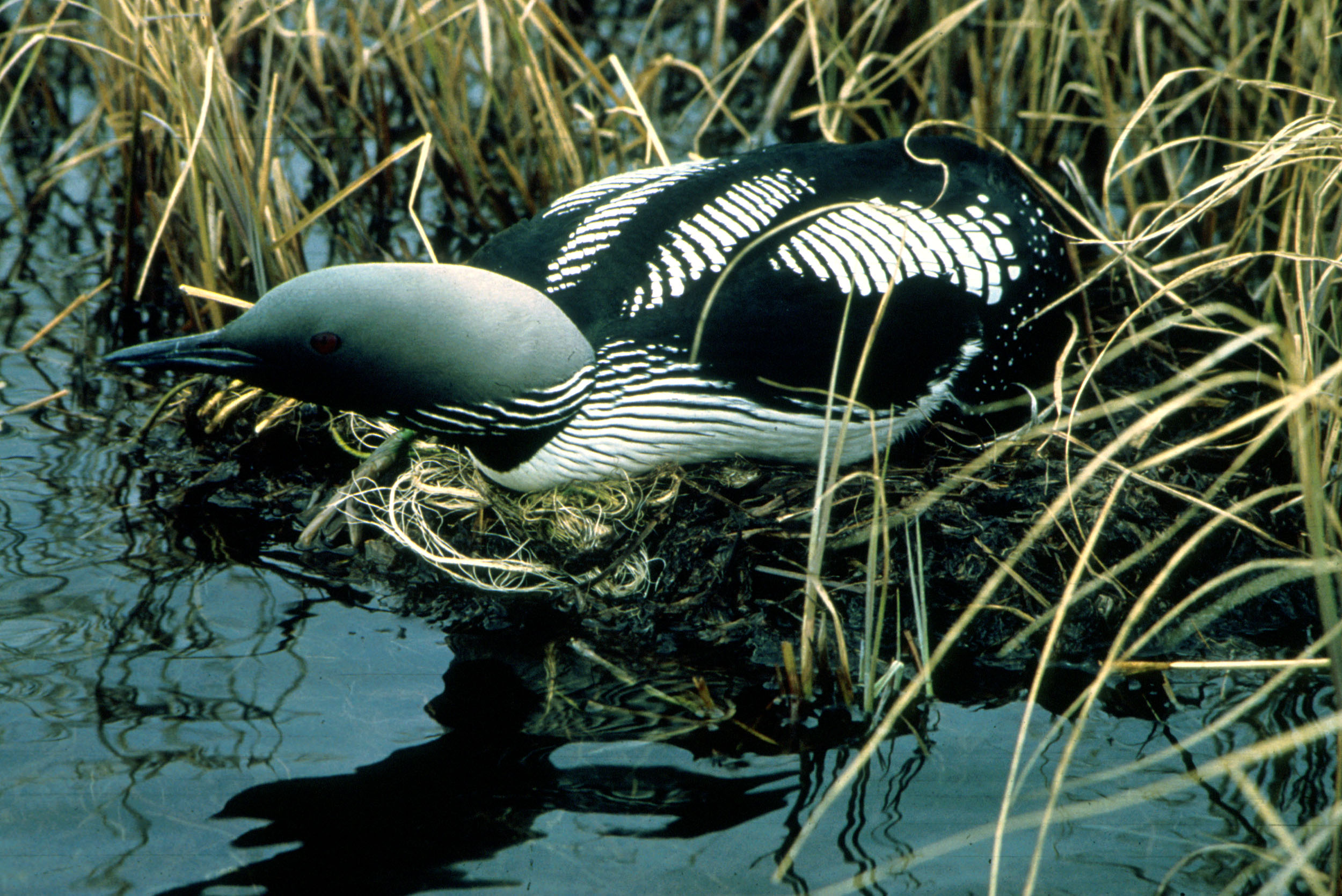 Arctic Loon Gavia arctica on nest